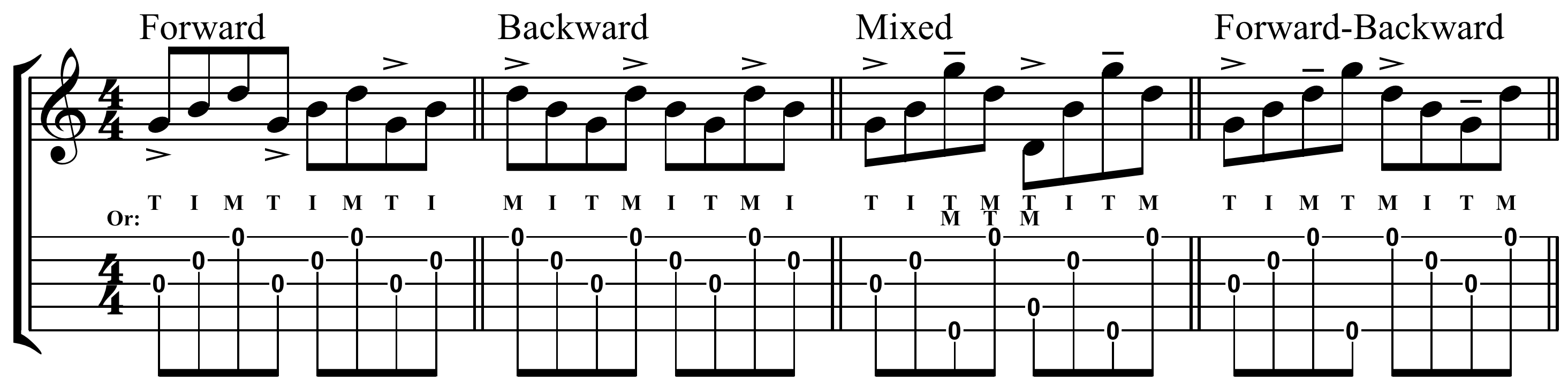 Banjo rolls on G major chord. Created by Hyacinth (talk) using Sibelius 5.